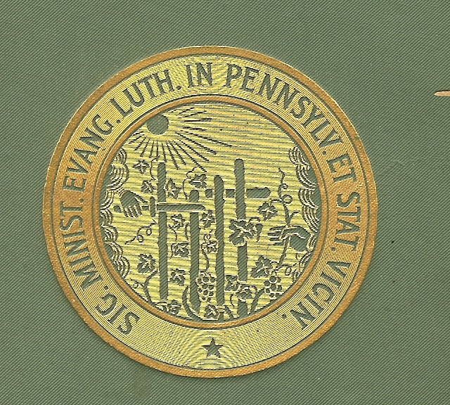 Corporate seal of the Pennsylvania Ministerium, showing a vineyard with two hands pruning and cultivating the vine